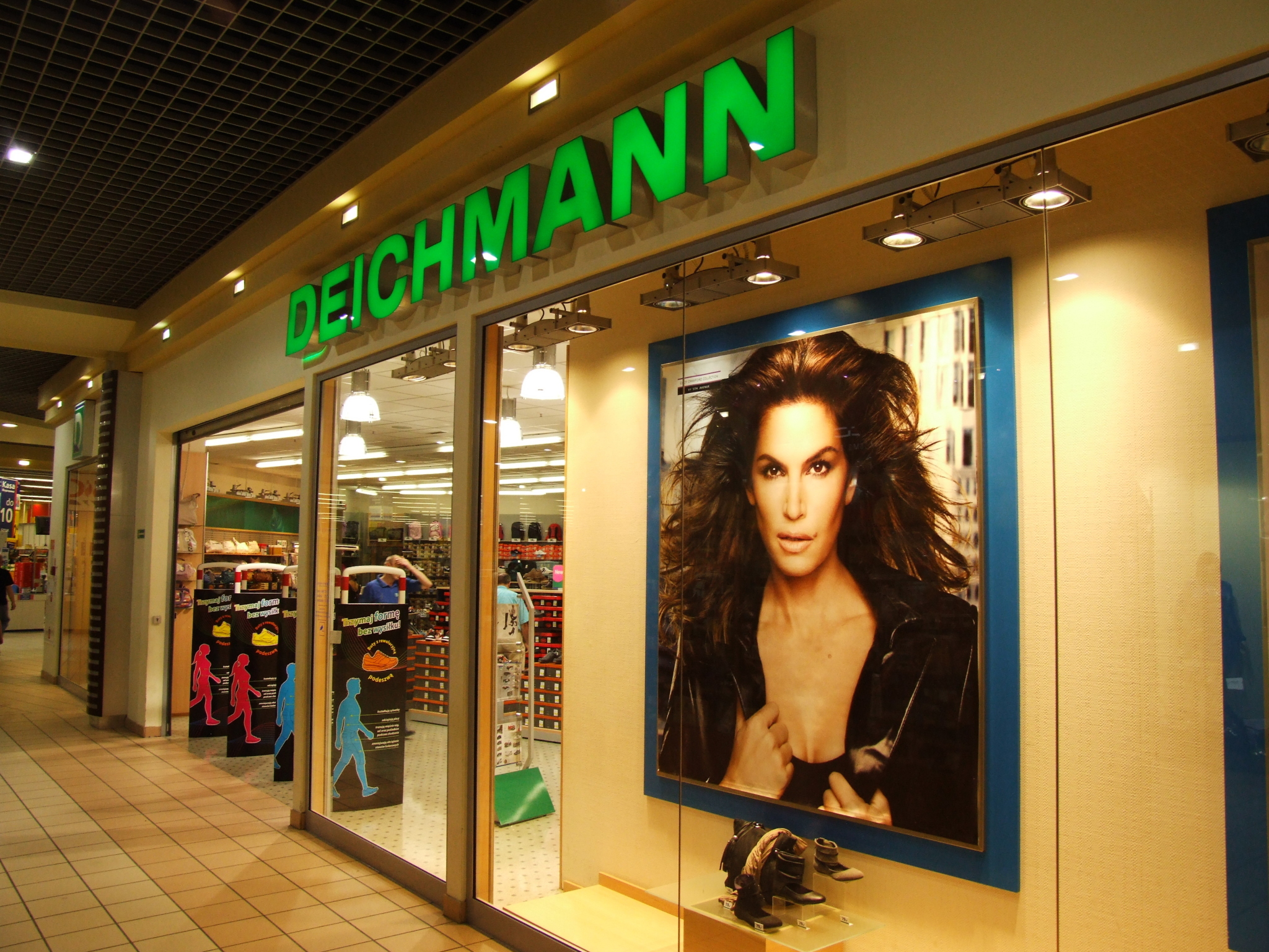 Deichmann store in Ostrowiec Swietokrzyski, Poland